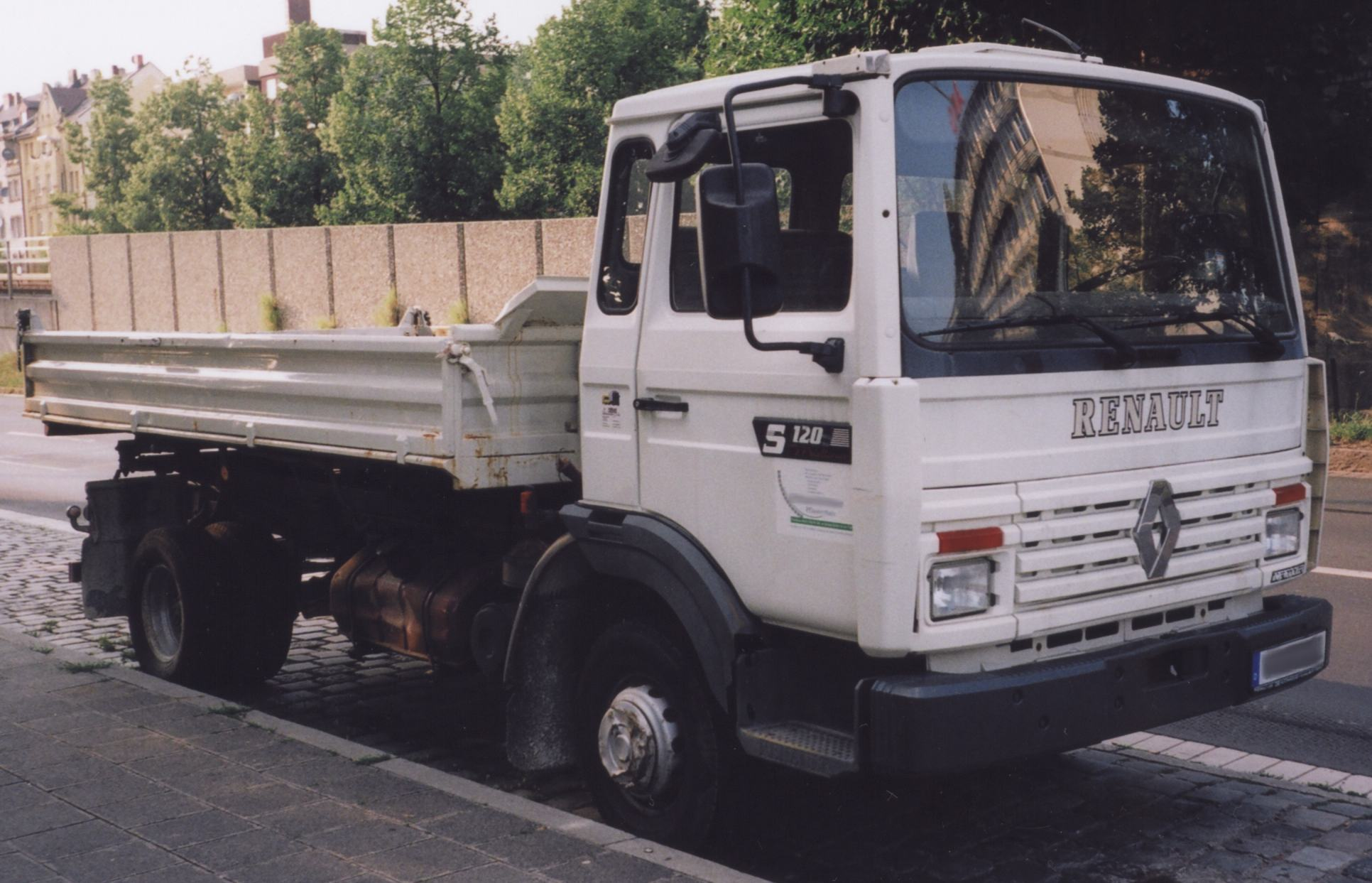 Photo of an Renault Midliner S120